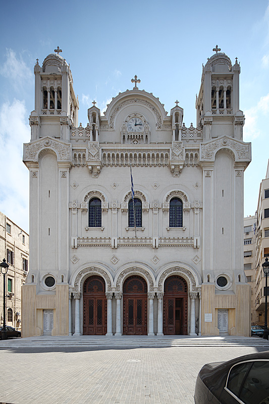 Façade of the Greek orthodox cathedral of Evangelismos, Alexandria, Egypt